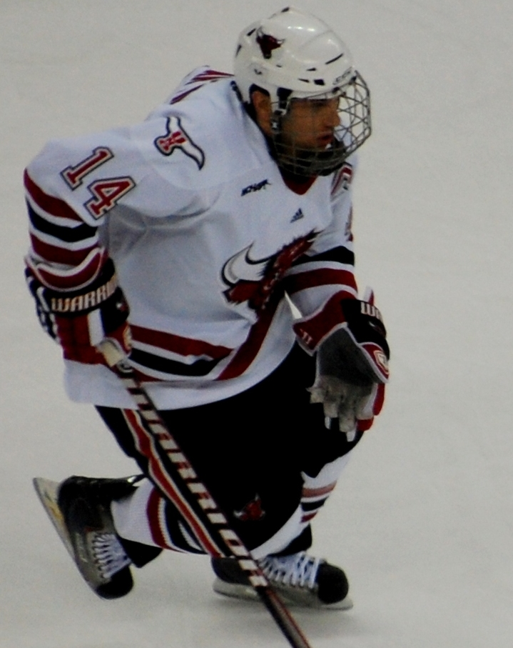 Wisconsin Badgers at Omaha Mavericks, February 11, 2011